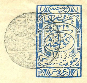 Official postal stamp issued by the Autonomous Government of Western Thrace in 1913. Denomination of 1 piastre. The stamp bears the inscriptions from top: "Posta" with denomination in ottoman numerals on each side "Garbi Trakia" - Western Thrace "Sene 1329 (in ottoman numerals)" - Year 1329 (=1913) "Gumuldjina" in an elliptic circle 1913 underneath "Hukumet Musteklieshi" - Autonomous Government Denomination in full [Bir Kurus(=1 piastre)] with letter P. (piastres) on left and numeric value on the right. The stamp on picture, bears also a black round negative exit cancel reading Dedeagach.